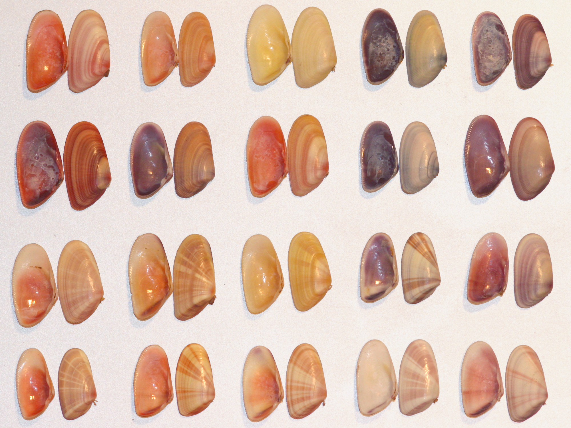 array of donax coquina shells. taken by me user debivort, Sept, 2006.